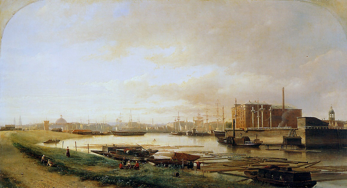 De amsterdamse Stoomsuikerraffinaderij